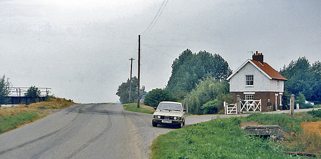 Site of Counter Drain Station. View NE, over crossing with station formerly on right, now perhaps a private house: Bourne left, Spalding right; ex-Midland & Great Northern, (Saxby) - Bourne - Spalding line. Passenger services here ceased (with most of the rest of the M&GN) on 2/3/59, but goods continued until 5/4/65. (See also TF1720 : Eastward over former Railway Bridge over dyke at Counter Drain and the identical present-day scene taken quite coincidentally by Andrew Tatlow in 2010 TF1720 : Site of Counter Drain station 2010).